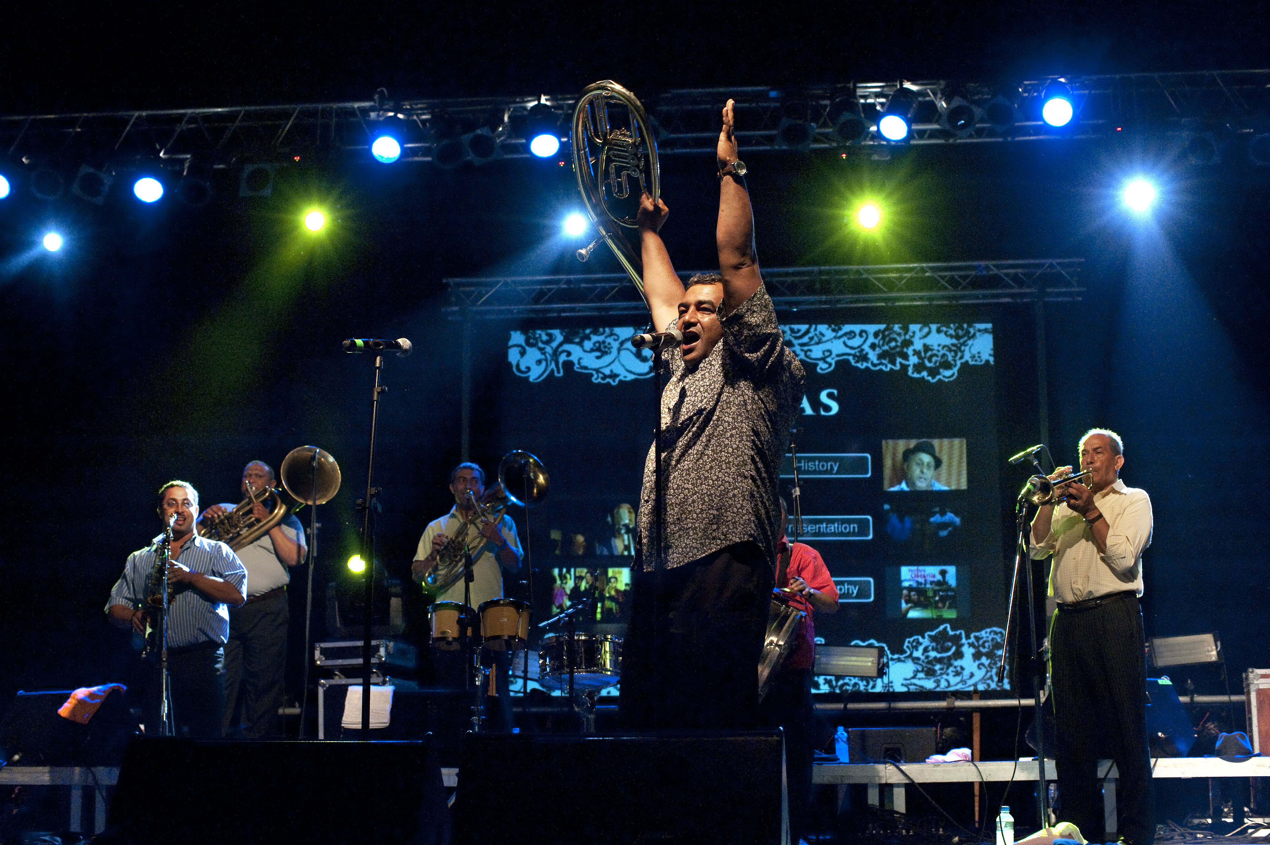 Romanian music group "Fanfare Ciocarlia" live @ Athens, Resistance festival by KOE.